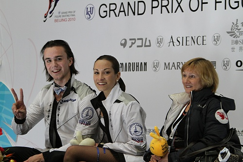 Ksenia Stolbova and Fedor Klimov with their coache Ludmila Velikova at the 2010-2011 Junior Grand Prix of Figure Skating Final.